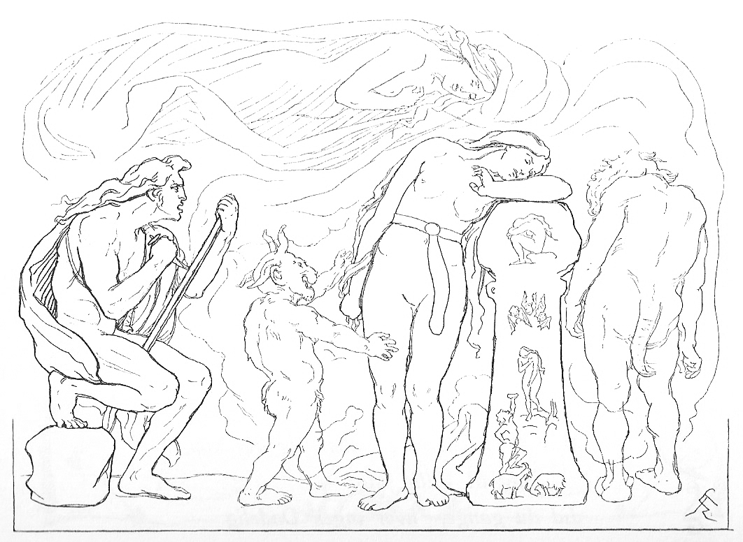 The second of three Skírnismál images by Frølich depicting Freyr's messenger Skírnir threating Gerðr.